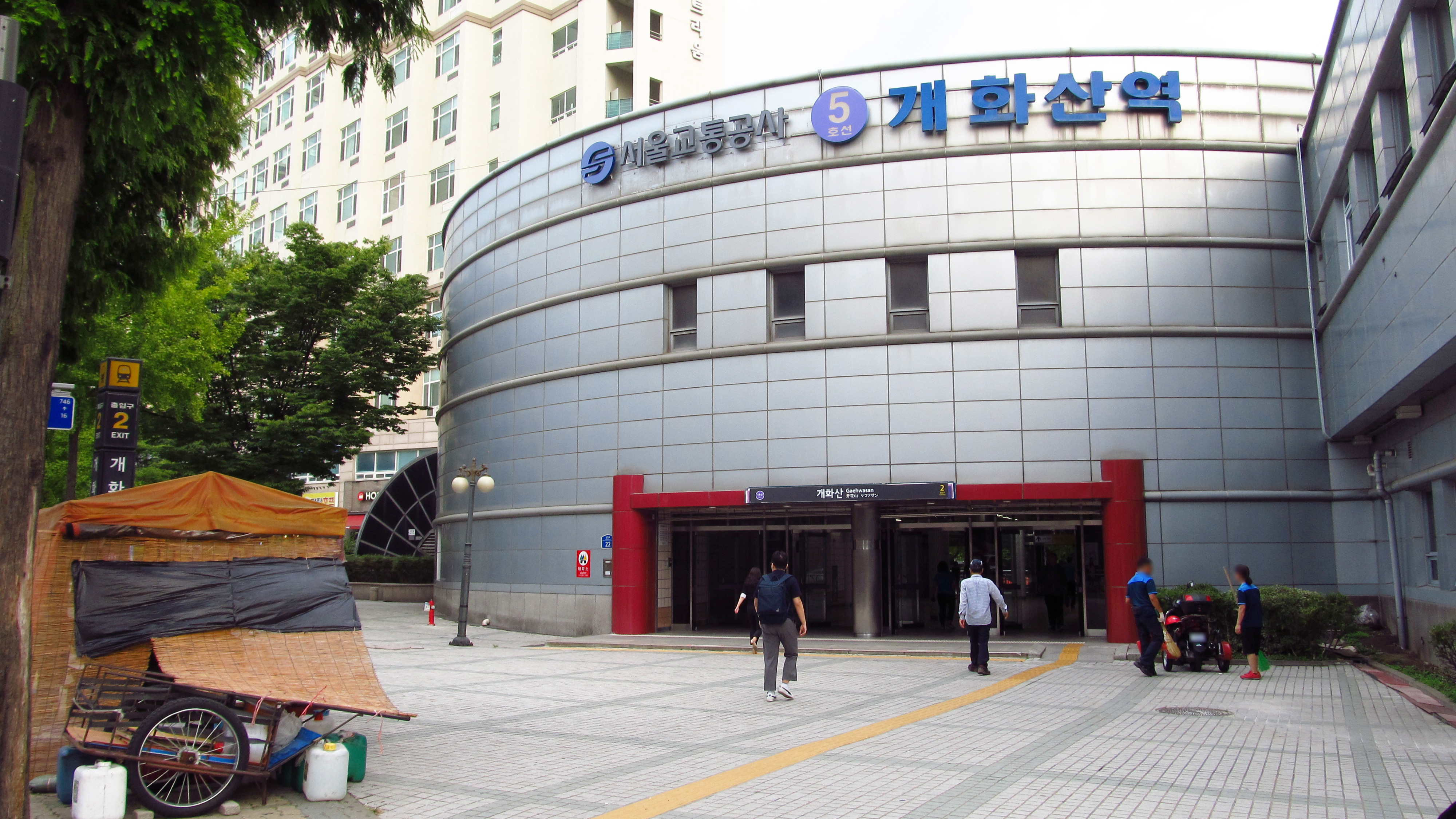 The no.2 entrance to Gaehwasan Station on the Seoul Metro Line 5 in Gangseo-gu, Seoul, Republic of Korea(South Korea)